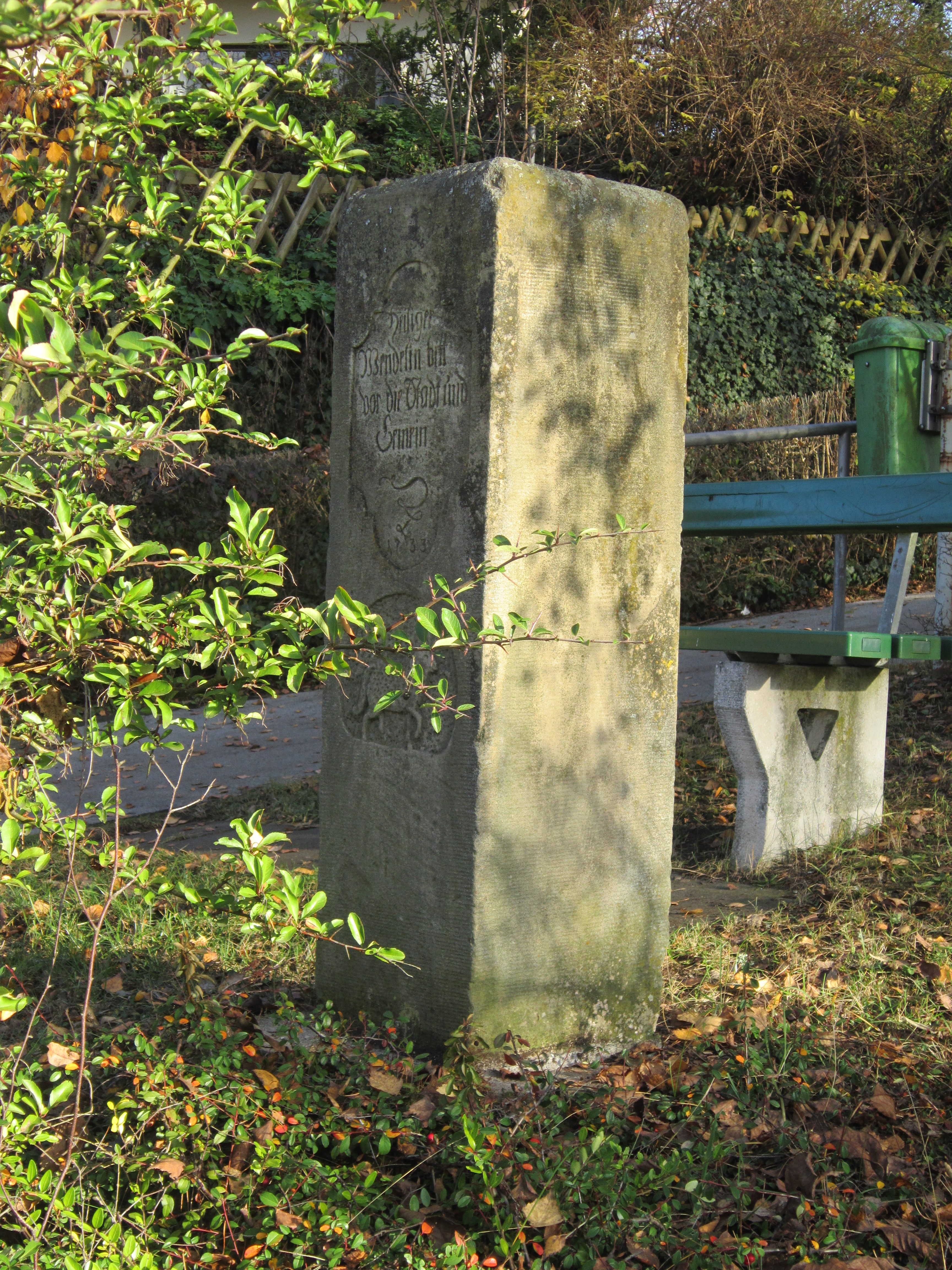 "Wendelinusstein" located in the Ignatius-Taschner-Straße in the German spa town of Bad Kissingen in Lower Franconia (Bavaria).